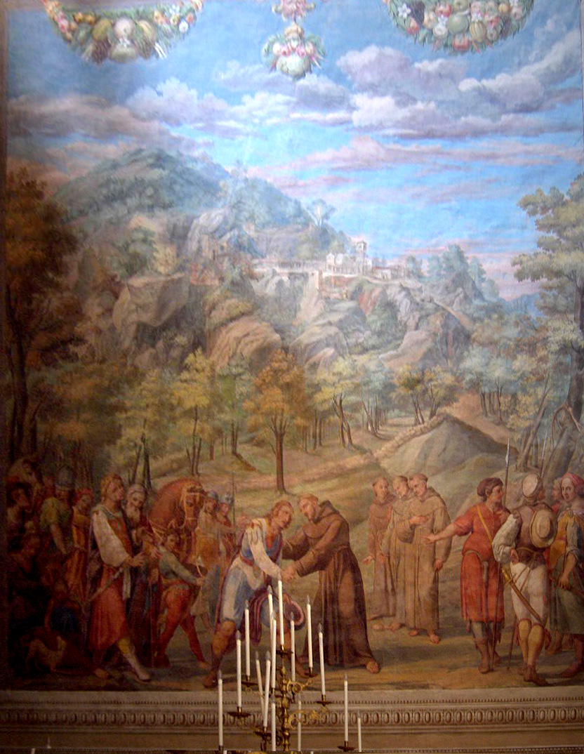 St. Francis receives men and women into the Third Order of Penance, at Cannara; painting by Baldassare Croce (1602-1603); Basilica of Santa Maria degli Angeli, Assisi, Italy